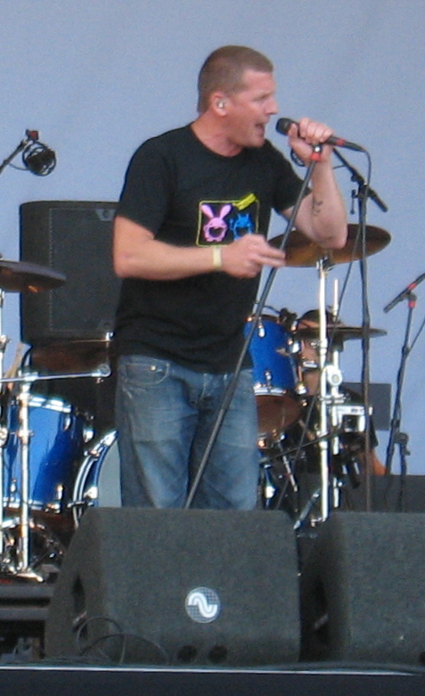 Bart_van_der_Weide, Racoon, Parkpop 2008